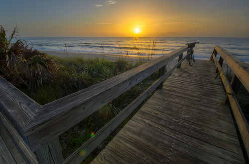 Sunrise